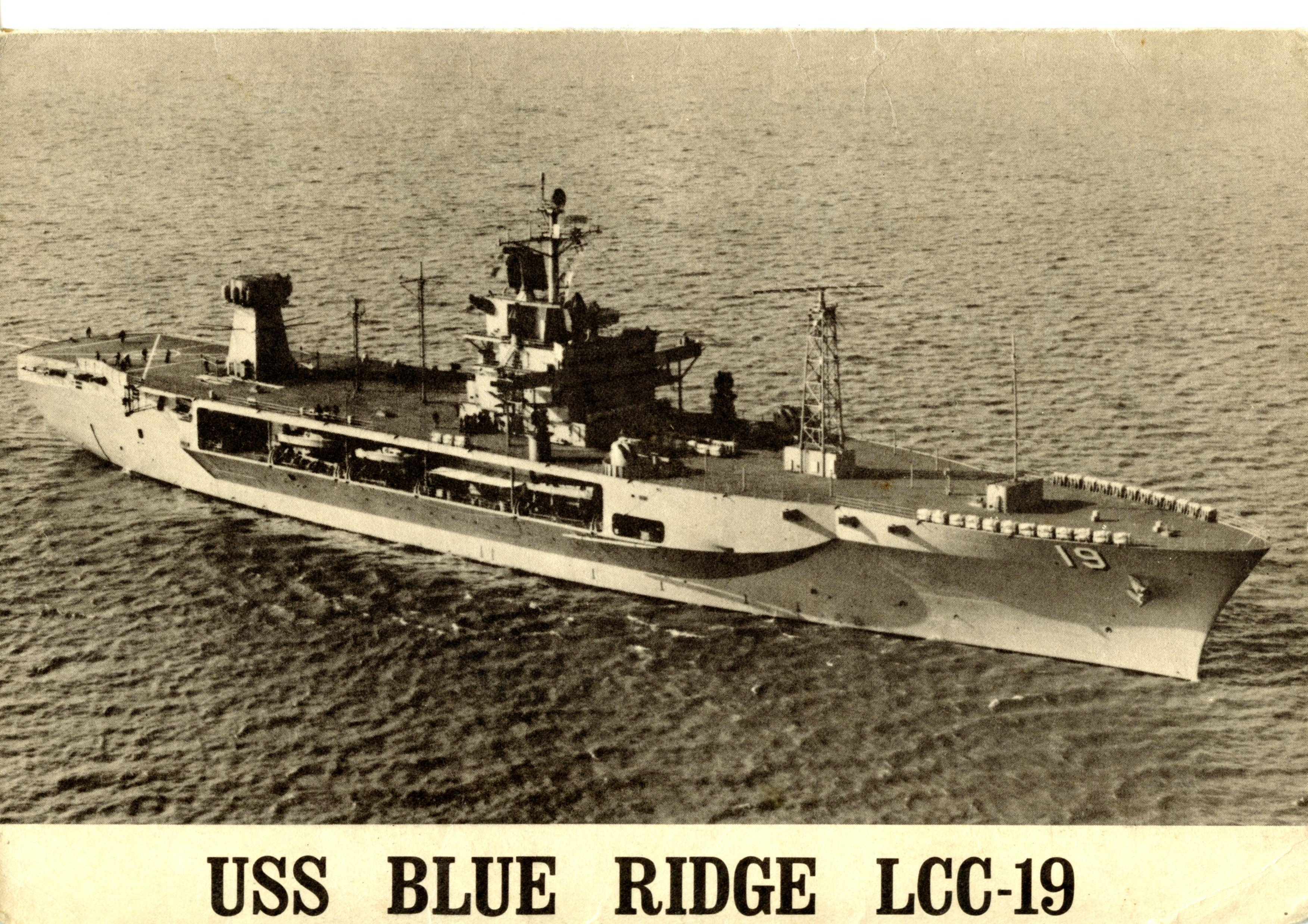 This photo is from the back cover of BLUE RIDGE (LCC-19) WELCOME ABOARD 1972 under Captain Speer and it looks like a tinted beige copy of the back cover in the BLUE RIDGE (LCC-19) WELCOME ABOARD 1971 under Captain Carroll. My memory has this photo being taken in the North Atlantic, of the coast of Norfolk, as we rondevu with our sister ship, Mount Whitney (LCC-20), for the first and apparently last time as we steamed to Blue Ridge's first homeport, San Diego, via the Strait of Magellan. If my memory is correct, this was the first time BR went to flight quarters, to receive the chopper from Mount Whitney (notice swabbies prepping the flight deck). My memory may have failed me on this pic, I don't remember there being a flight deck operation during BR's first Insurv trial, but this pic is virtually identical in operations under way (flight deck prepping) from a different angle with a pic of BR's first Insurv Trial. Once I get the Philly yard publication up on BR's WikiMedia Commons, I will provide that link. In any event, it just may be BR's first chopper operation. In late January, she conducted her first INSURV in the North Atlantic, after transiting the Delaware River, from and return to Philly. [4] Welcome Aboard USS Blue Ridge (LCC-19) 1972 page 06 of 06.jpg